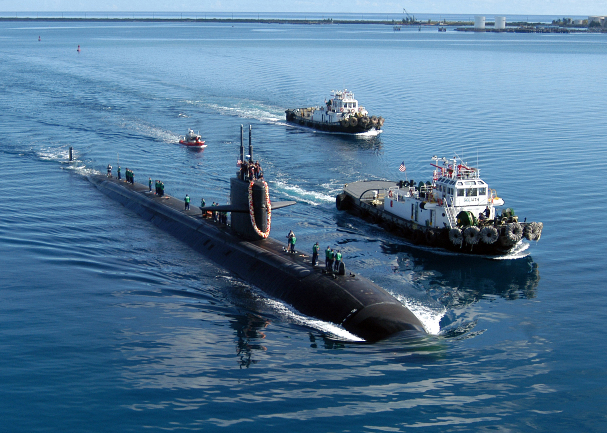 040604-N-4658L-001 Santa Rita, Guam - The attack submarine USS San Francisco (SSN 711) is escorted by two harbor tugs returns to Apra Harbor, Guam, after a five-month deployment. San Francisco is to attached to Commander, Submarine Squadron 15 (COMSUBRON Fifteen), which is the Navy's only forward-deployed submarine squadron and is homeported in the U.S. territory of Guam.